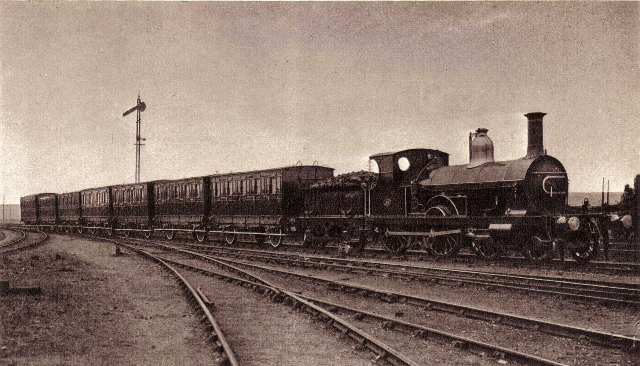 GNoSR No. 45 with a train of old coaches at the Railway Centenary at Darlington in 1925